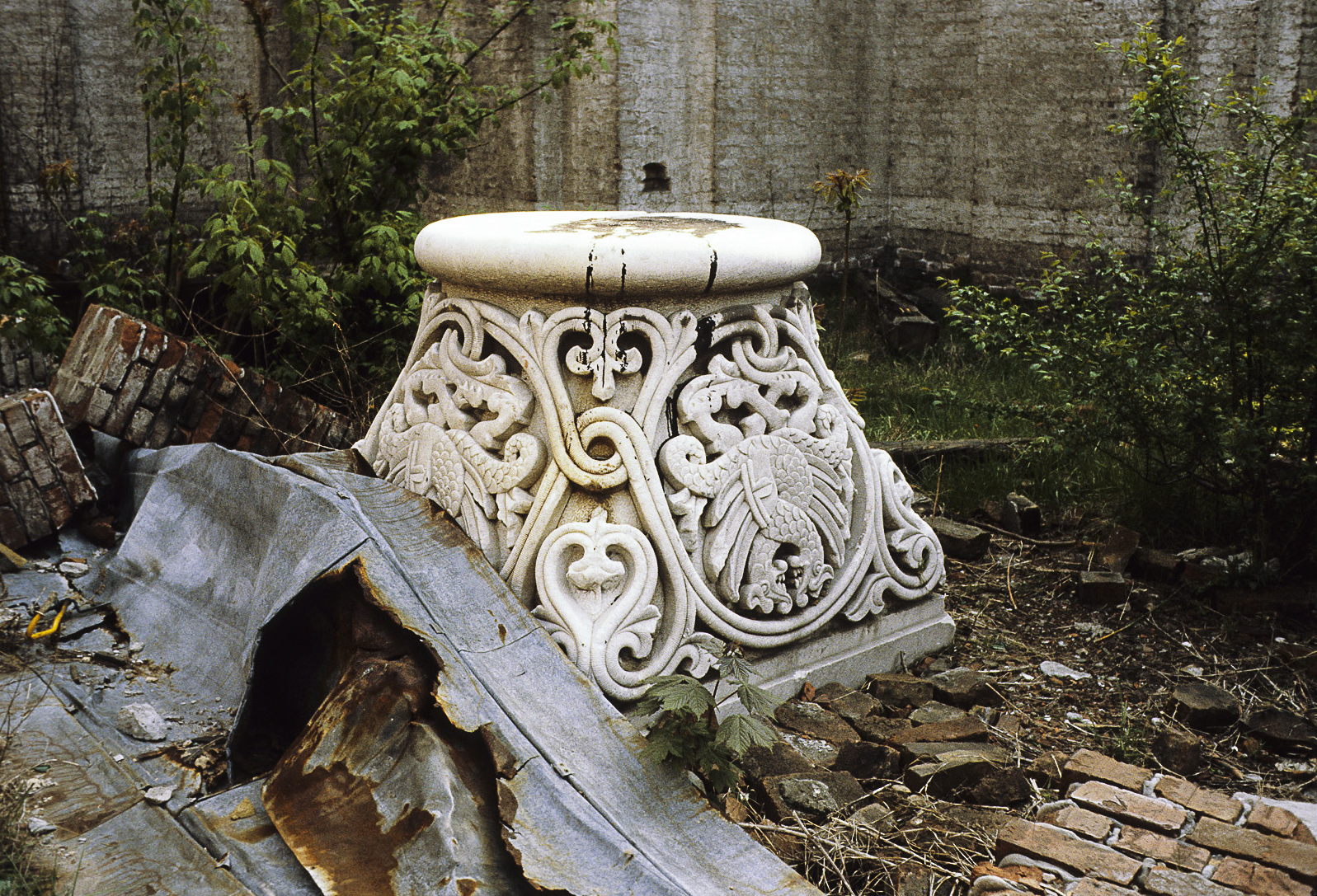 Carrara Kapitel Hram Svetog Save 2 fotografisano 1981